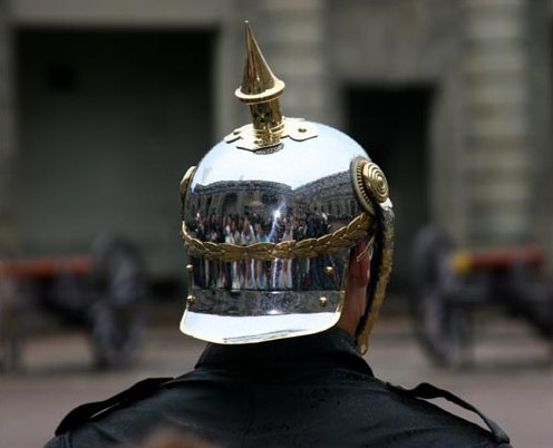 Ceremonial Pickelhaube of a Swedish Royal Guard soldier